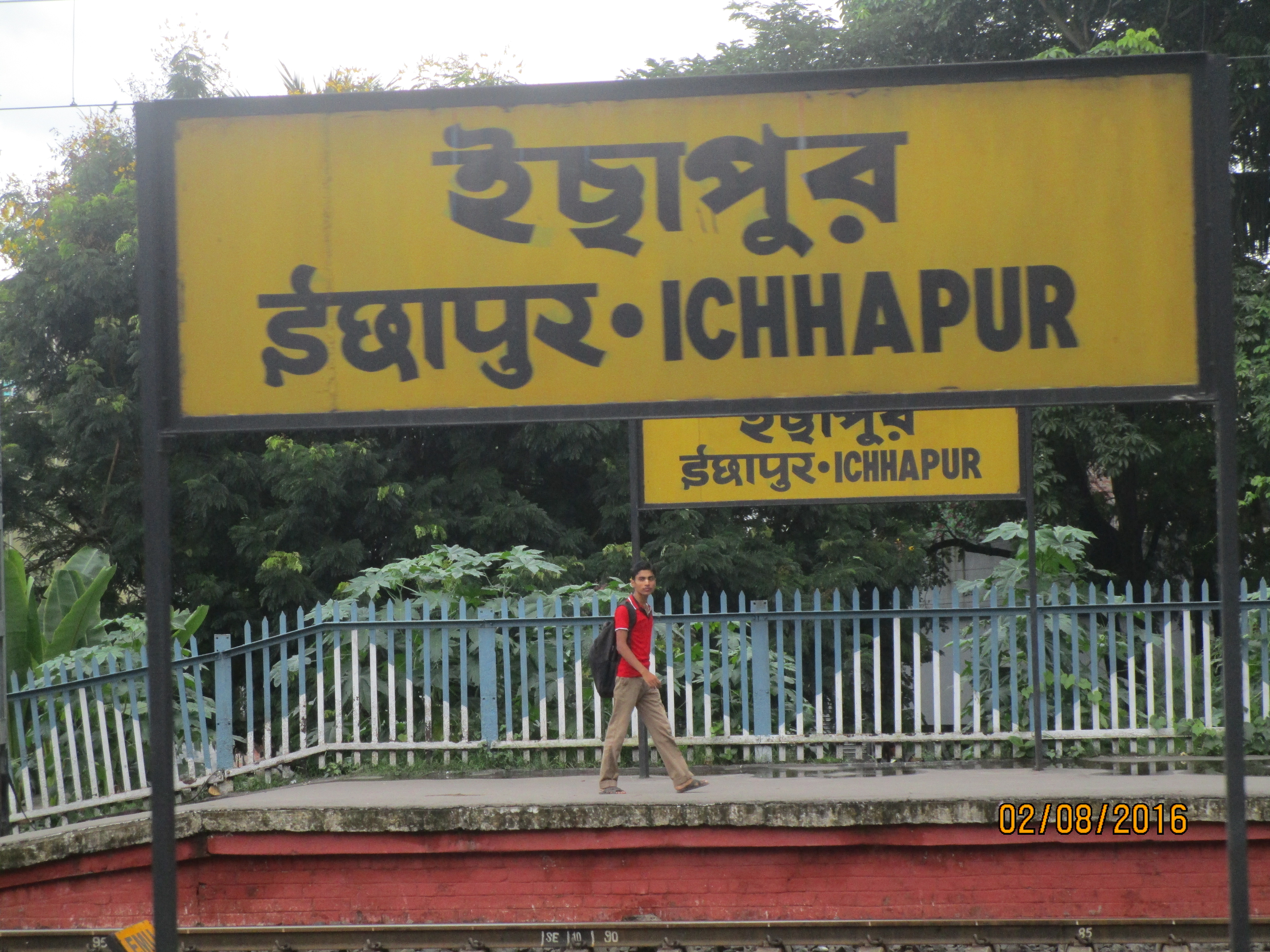 Ichapore railway station